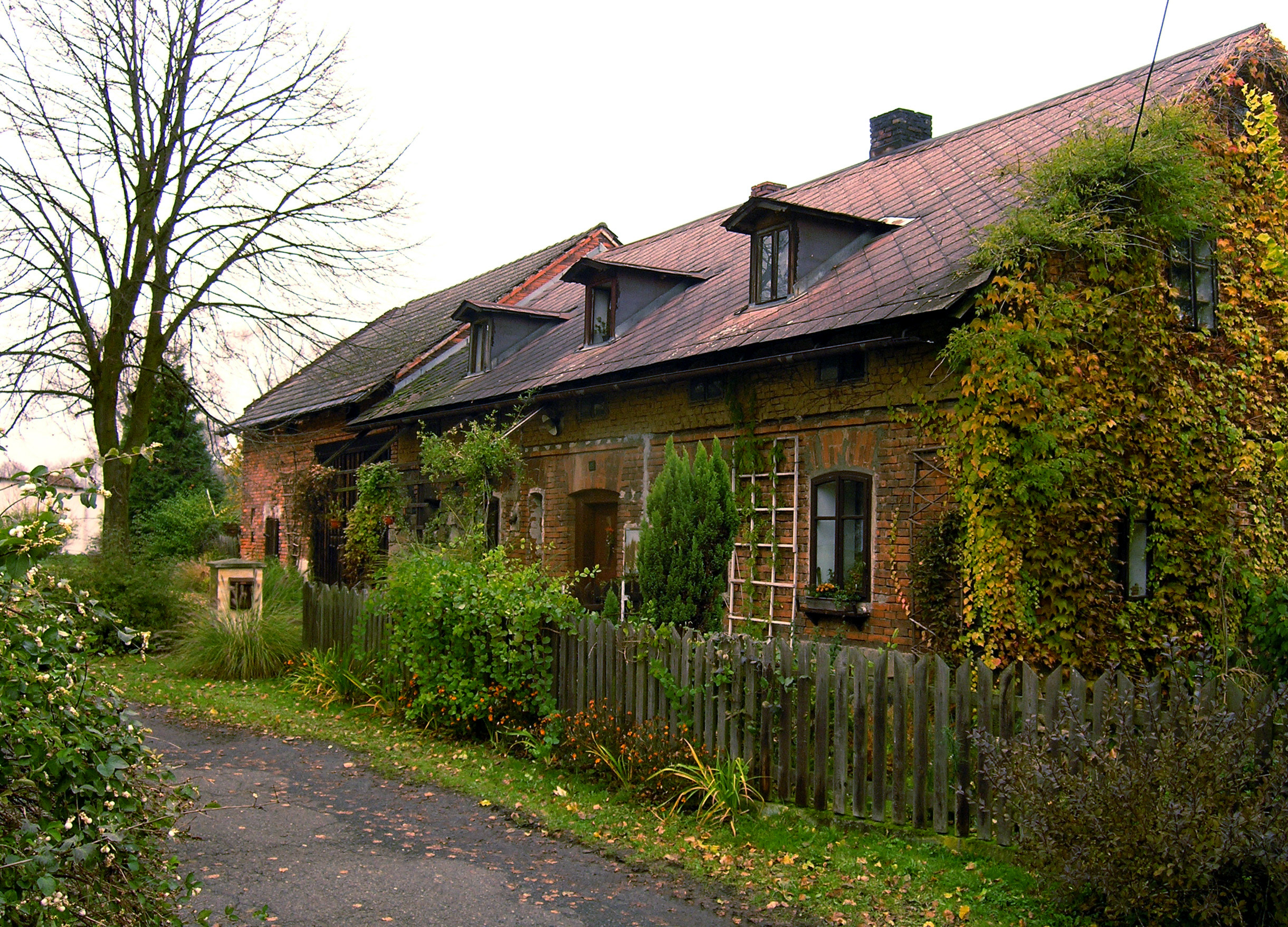 Old house in Stružnice village, Czech Republic